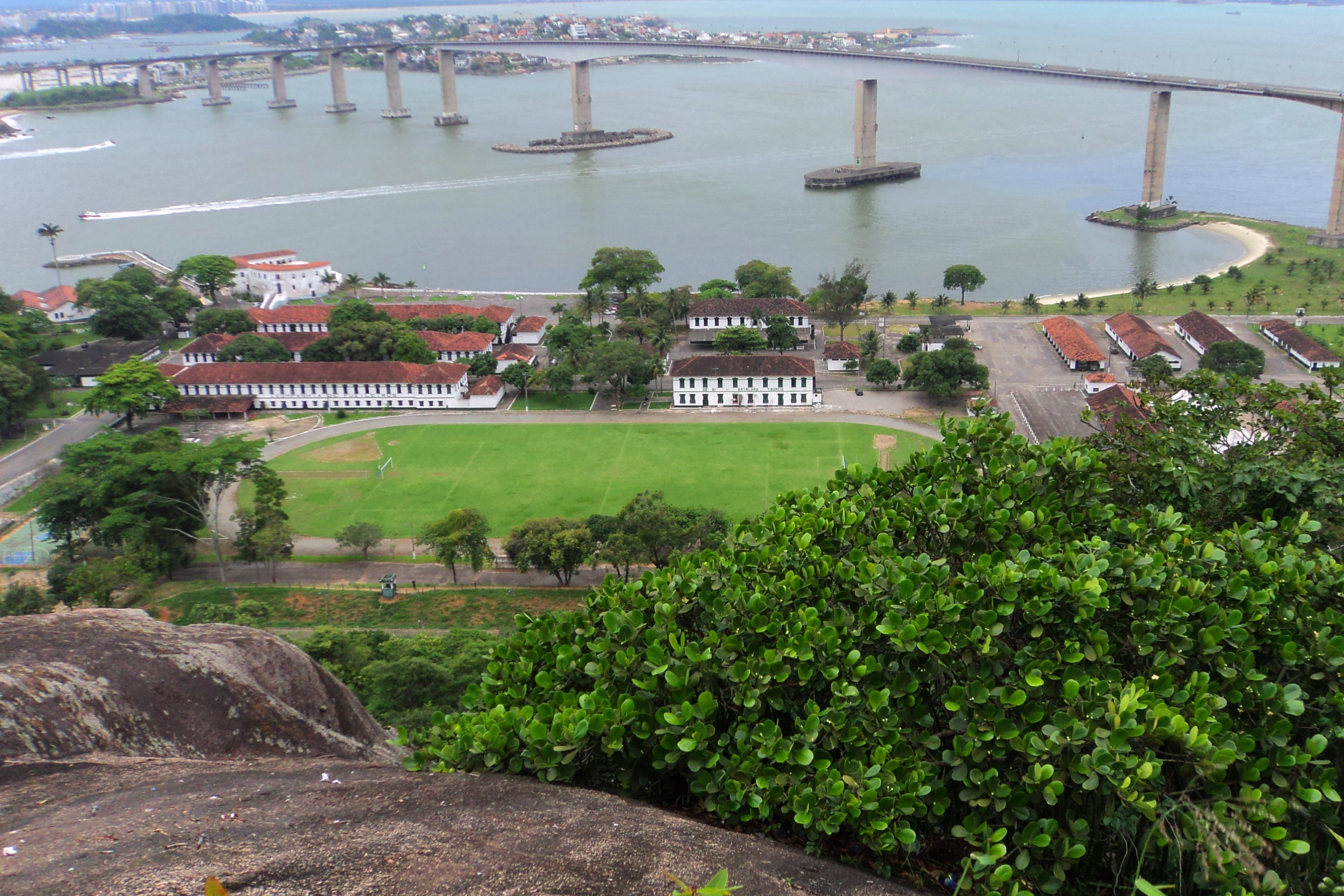 The 38th Infantry Battalion of Vila Velha, Espírito Santo, Brazil.